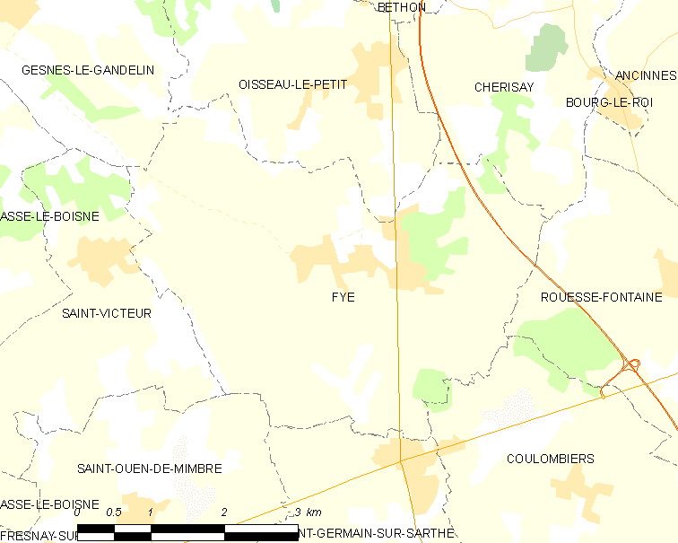 Map of French municipality